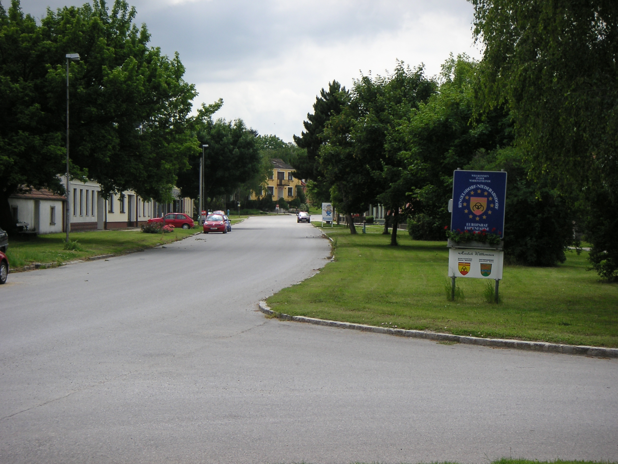 Untere Hauptstraße in Ringelsdorf, Lower Austria